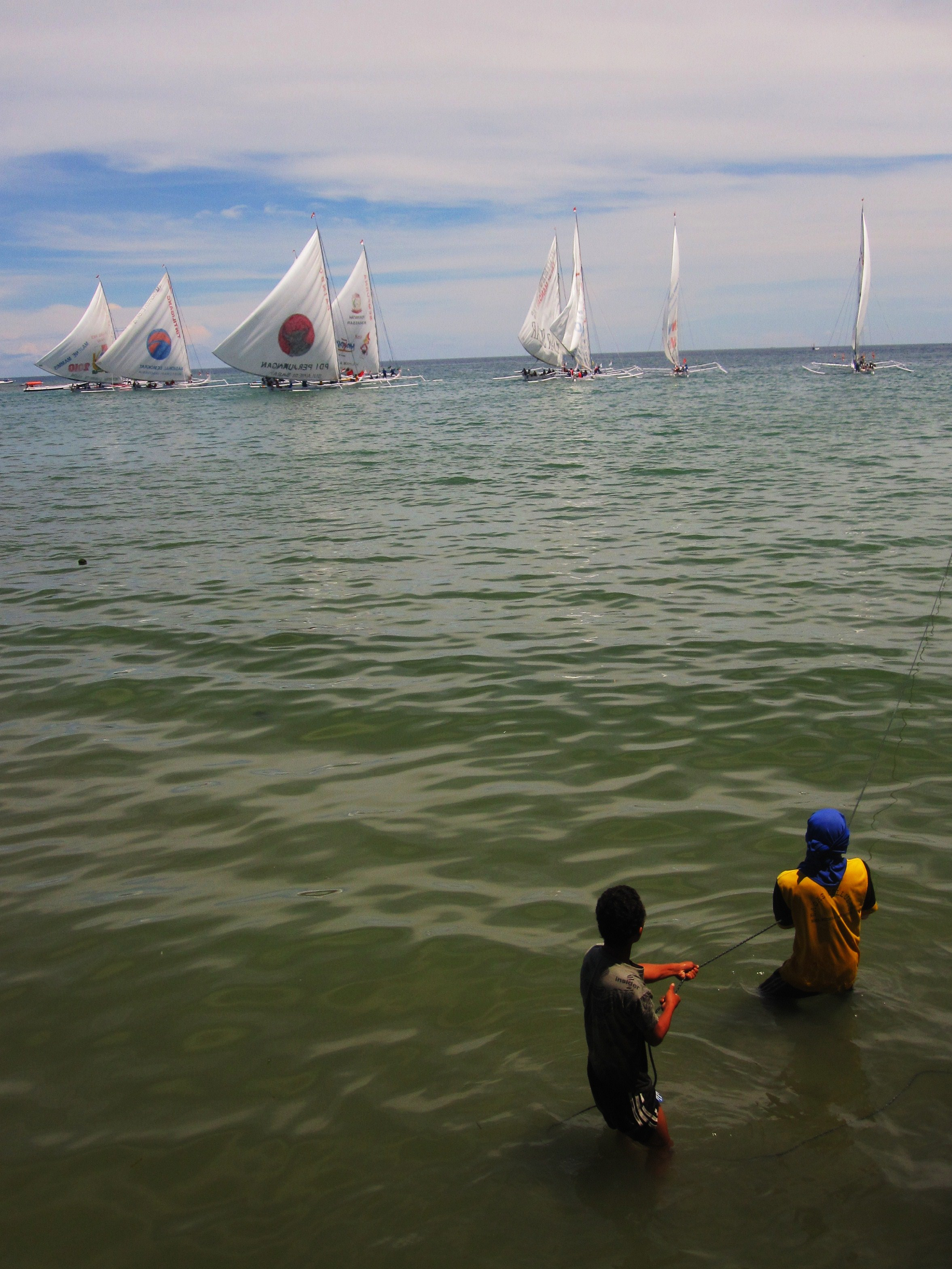 Fishermen in Majene